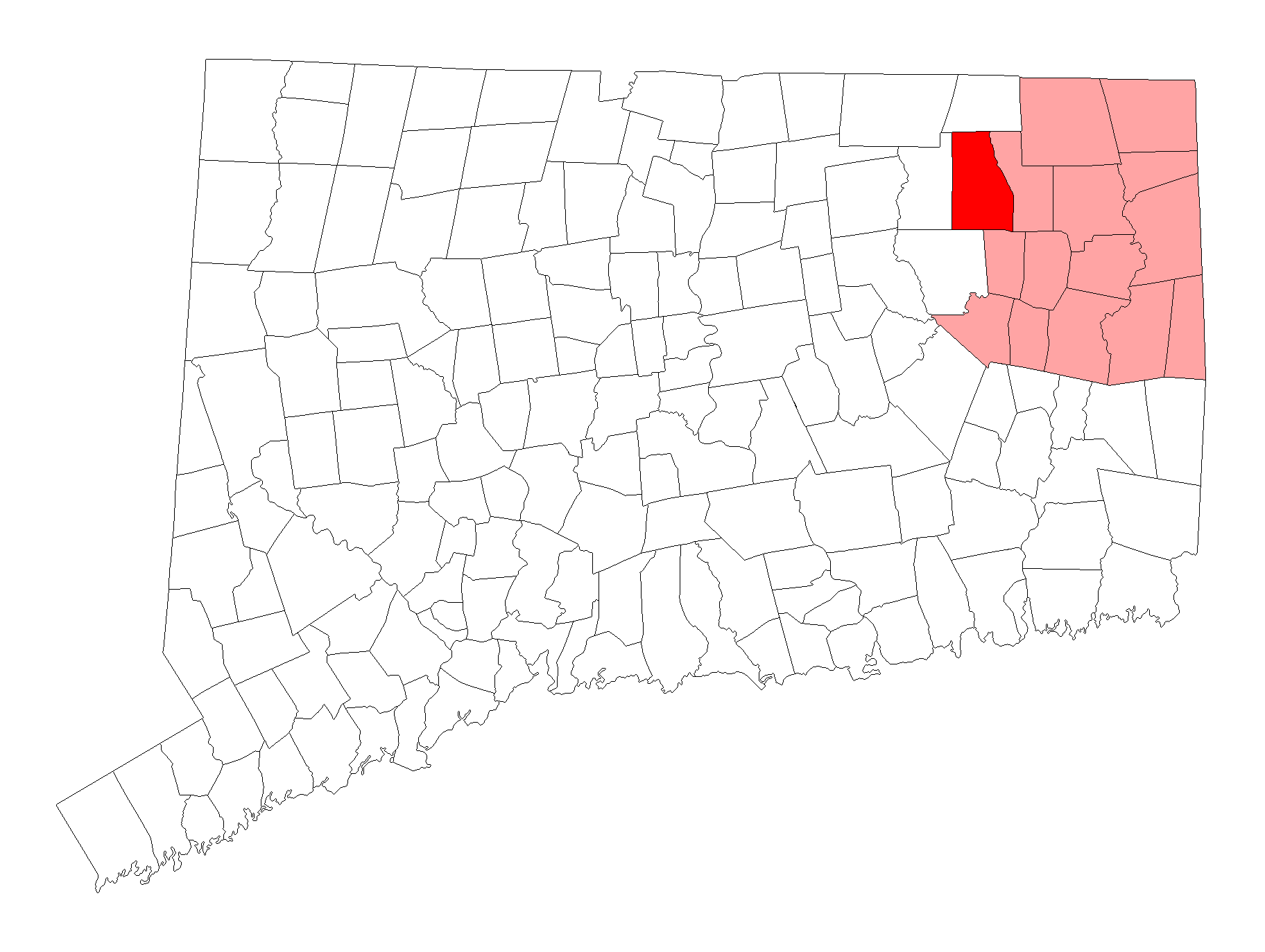 The location of Ashford, Connecticut in the state of Connecticut